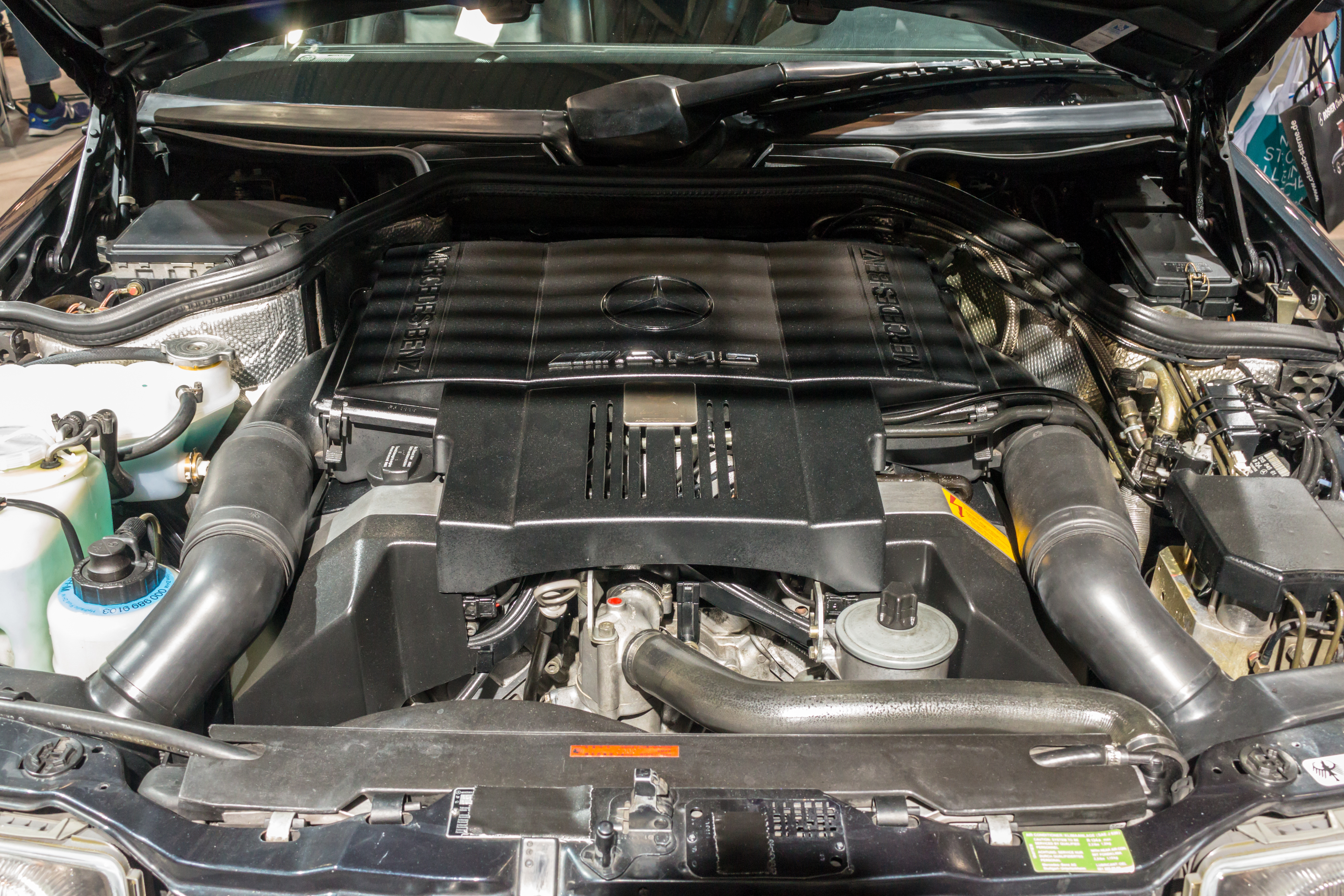 Mercedes-AMG M119 E60 engine, Techno Classica 2018, Essen